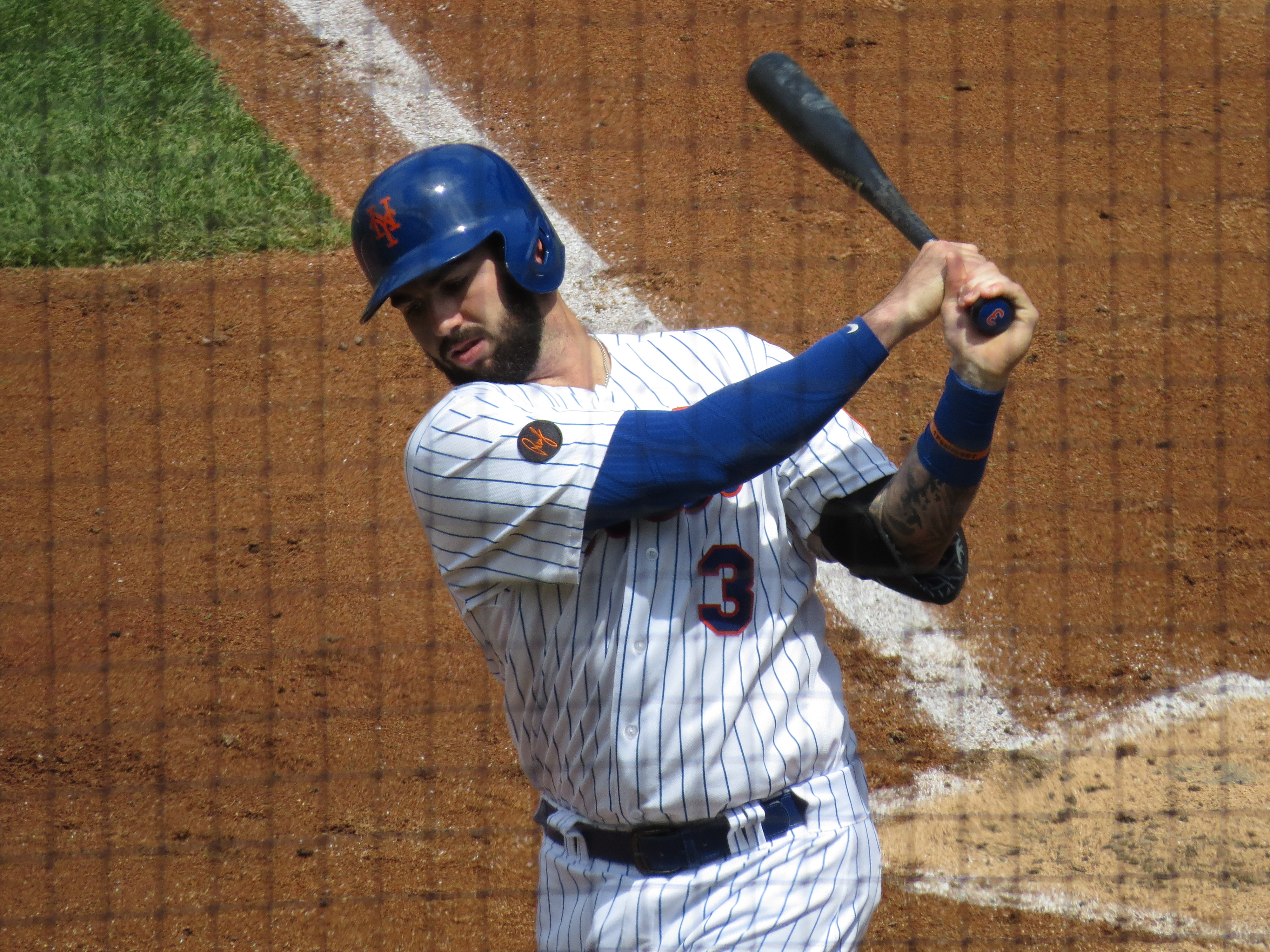 Tomas Nido of the Mets batting on May 20, 2018